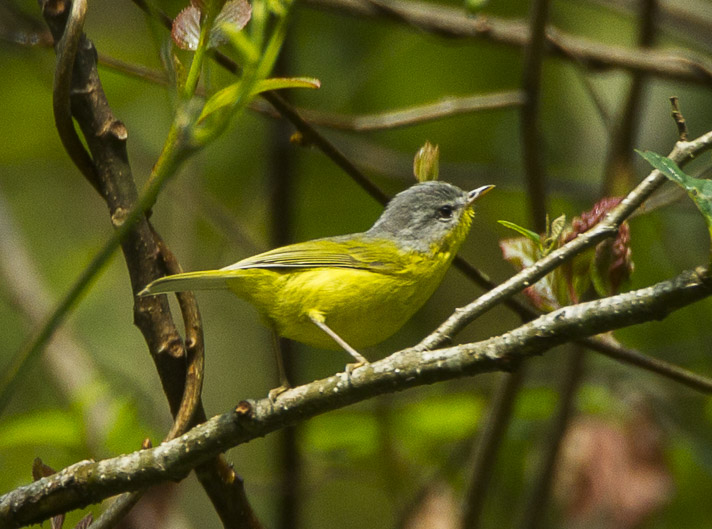 Gray-hooded Warbler - Bhutan_S4E9002